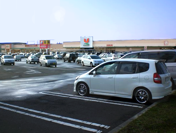 Hachinohe Newtown Central Area in Hachinohe Aomori,Japan